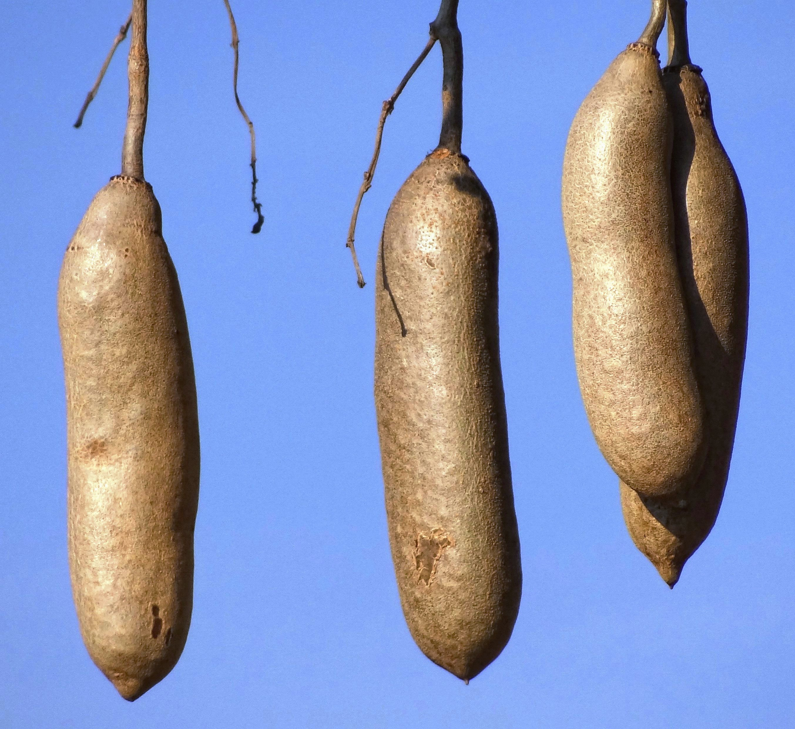 Fruit from the sausage tree, Kigelia africana.